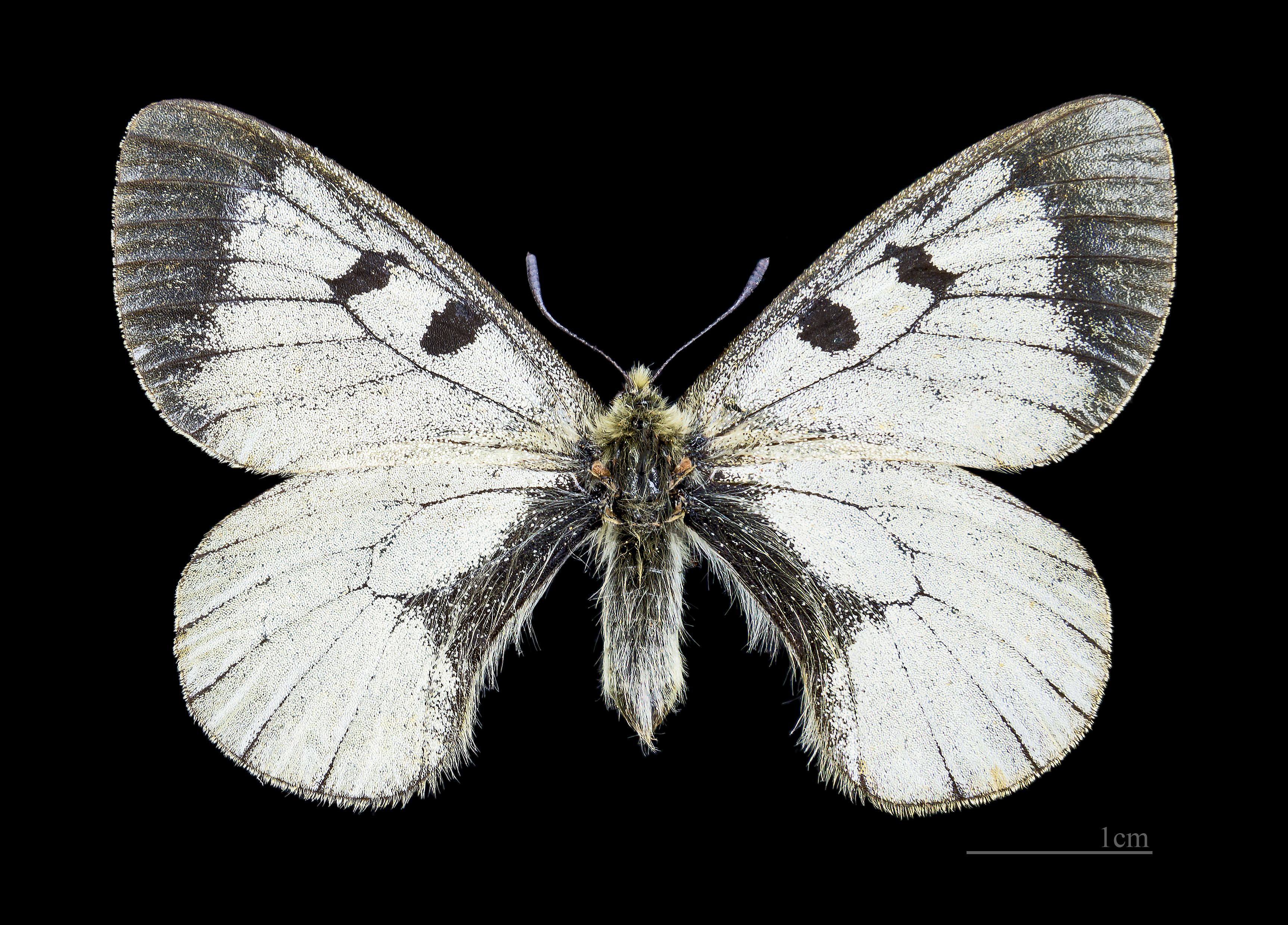 Clouded Apollo. Dorsal side.